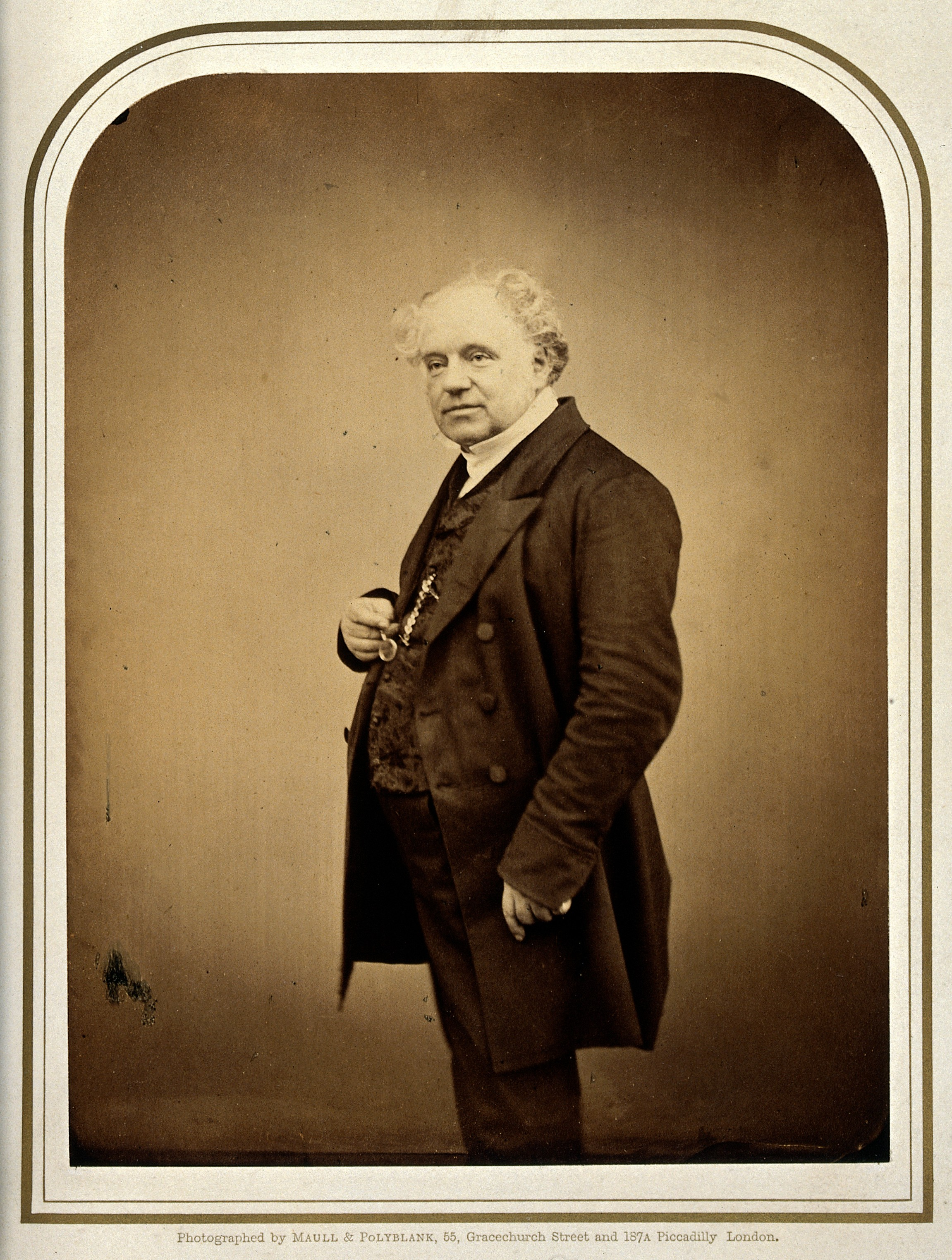 Thomas Leverton Donaldson. Photograph by Maull & Polyblank. Iconographic Collections Keywords: portrait photographs